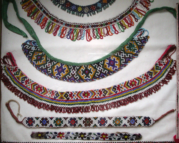 Gerdan - traditional Ukrainian jewellery, part of the national costume. Photo of Gerdans from collection of Museum of folk art of Hutsul’shchyna and Pokuttya in Kolomyia (Коломийський музей народного мистецтва Гуцульщини і Покуття ім. Йосафата Кобринського)